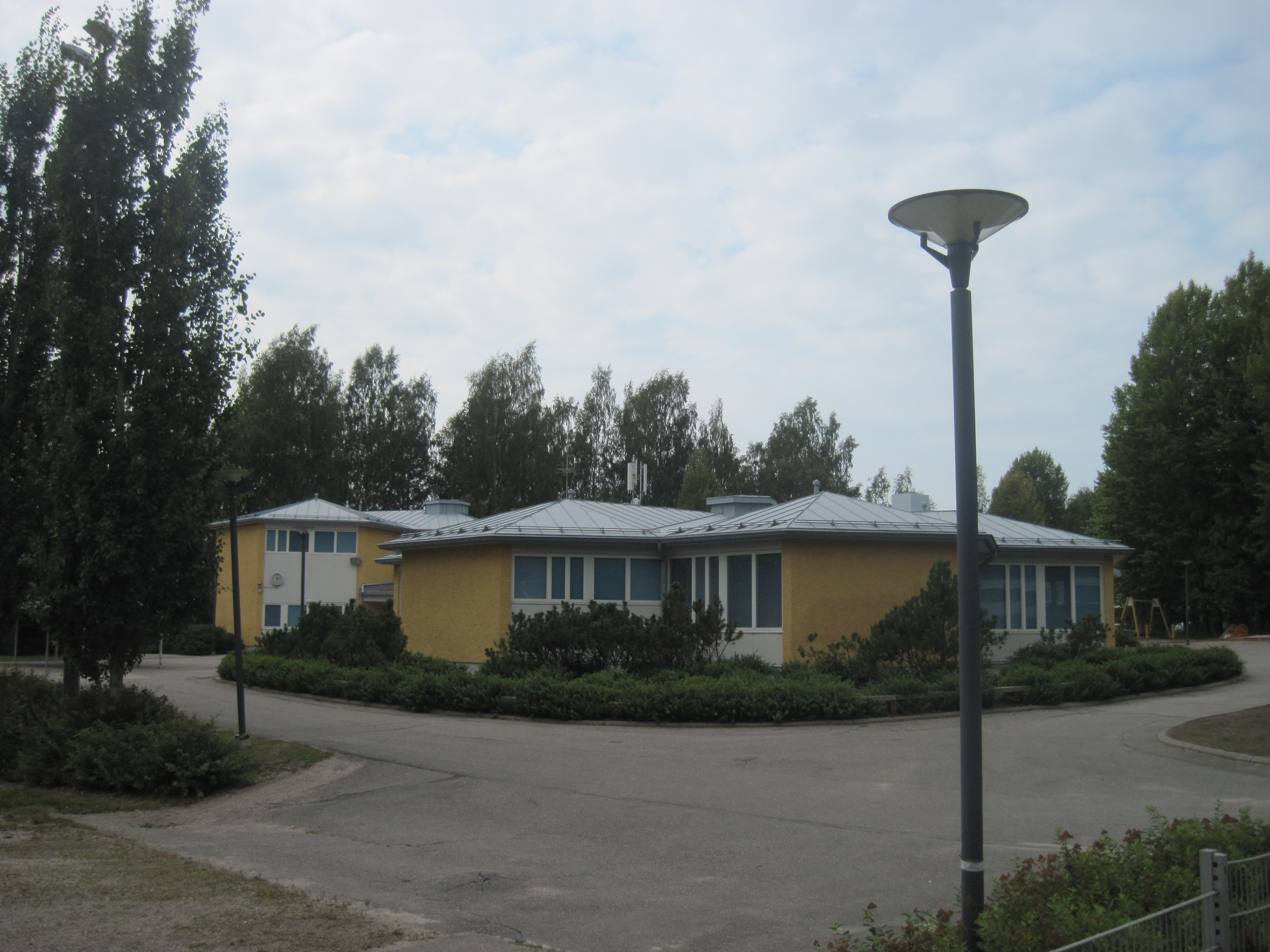 Friisila School at Espoo, Finland